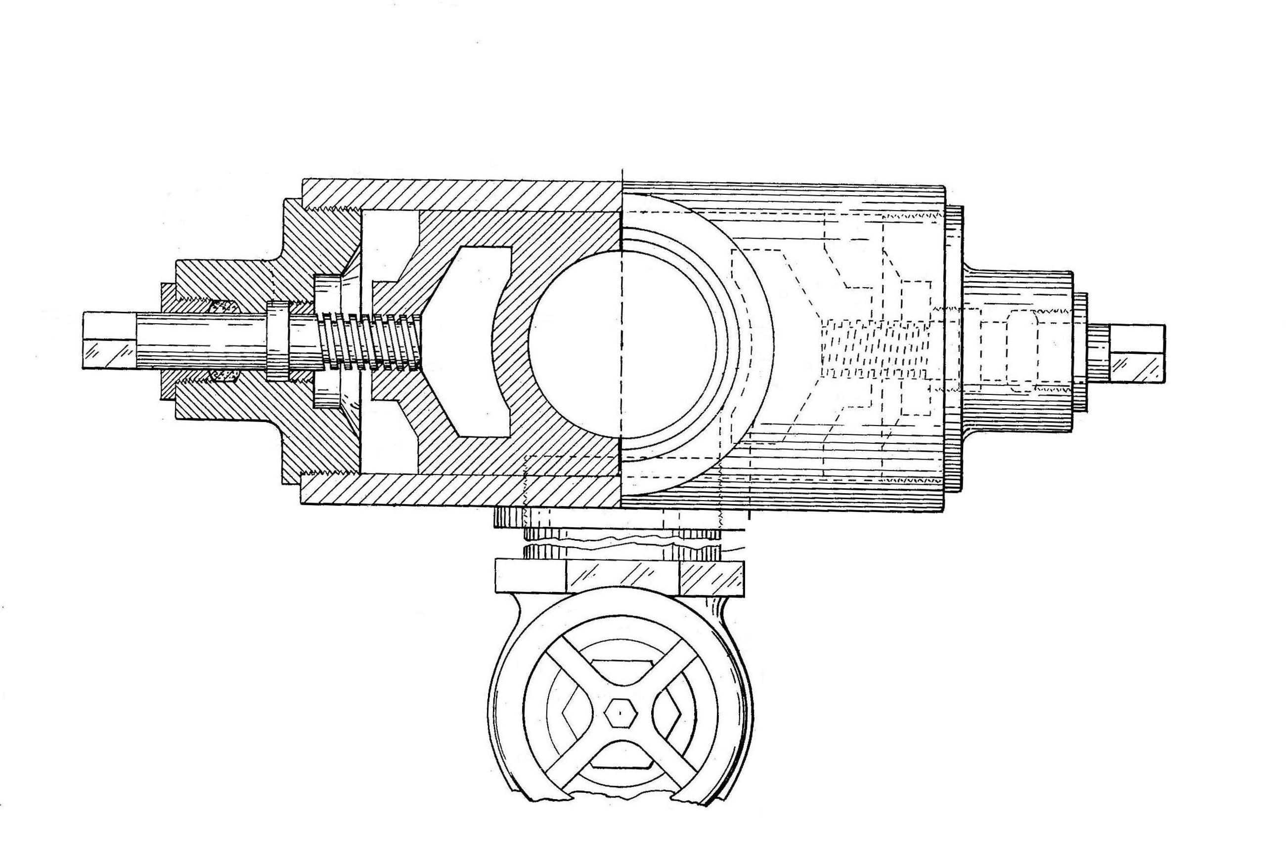 Cameron Ram-type Blowout Preventer (1922) U.S. Patent 1,569,247. Text was removed from figure and minor cleanup of the scan was done with Microsoft Paint.